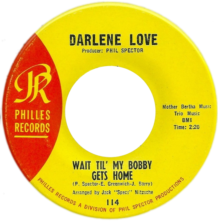 US vinyl release of "Wait 'til My Bobby Gets Home" by Darlene Love; one of A-side track labels